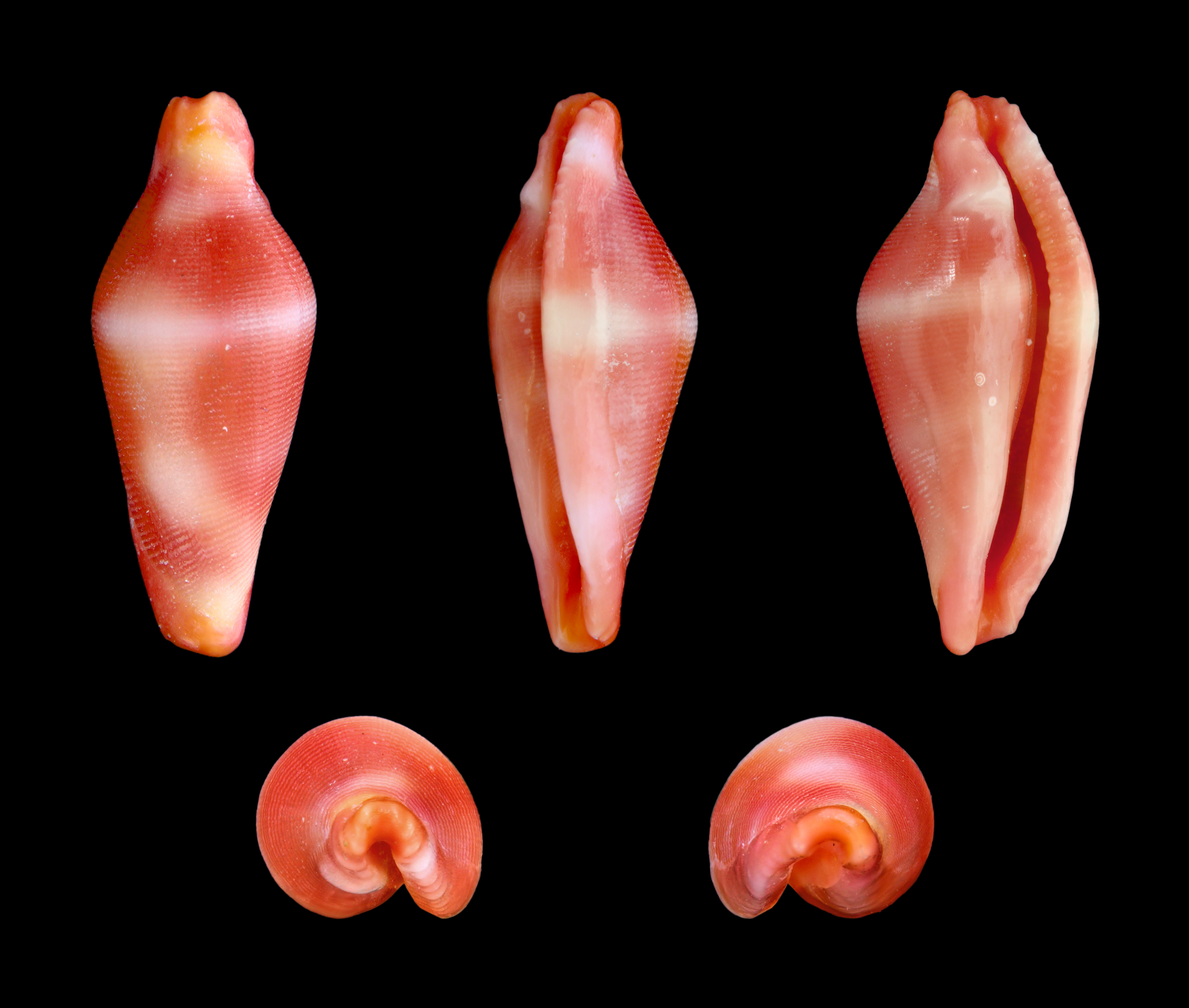 Length 1.0 cm; Originating from Bohol, Philippines; Shell of own collection, therefore not geocoded. Dorsal, lateral (right side), ventral, back, and front view.